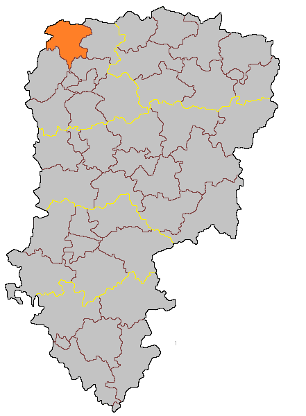 Кантон Ле-Катле на карте департамента Эна